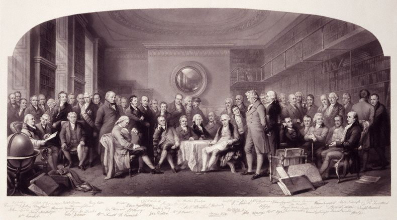 Men of Science Living in 1807-8, engraving after Men of Science Living in 1807-8 (by Sir John Gilbert, and Frederick John Skill, and William Walker, and Elizabeth Walker (née Reynolds)), 1858-1862 from National Portrait Gallery in London